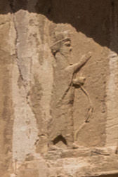 Closeup of a relief above a royal Achaemenid tomb at Naqsh-e Rostam, usually attributed to Artaxerxes I.